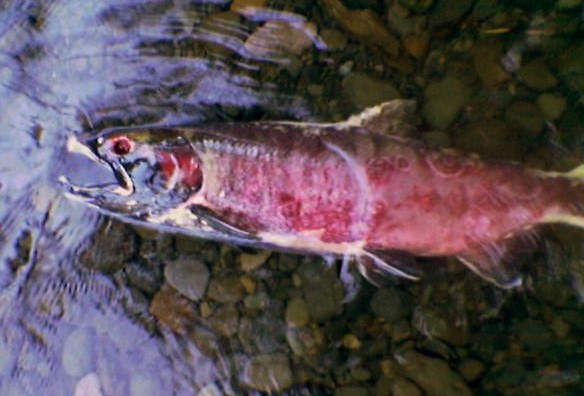 Dead salmon in spawning season, U.S. Pacific Northwest